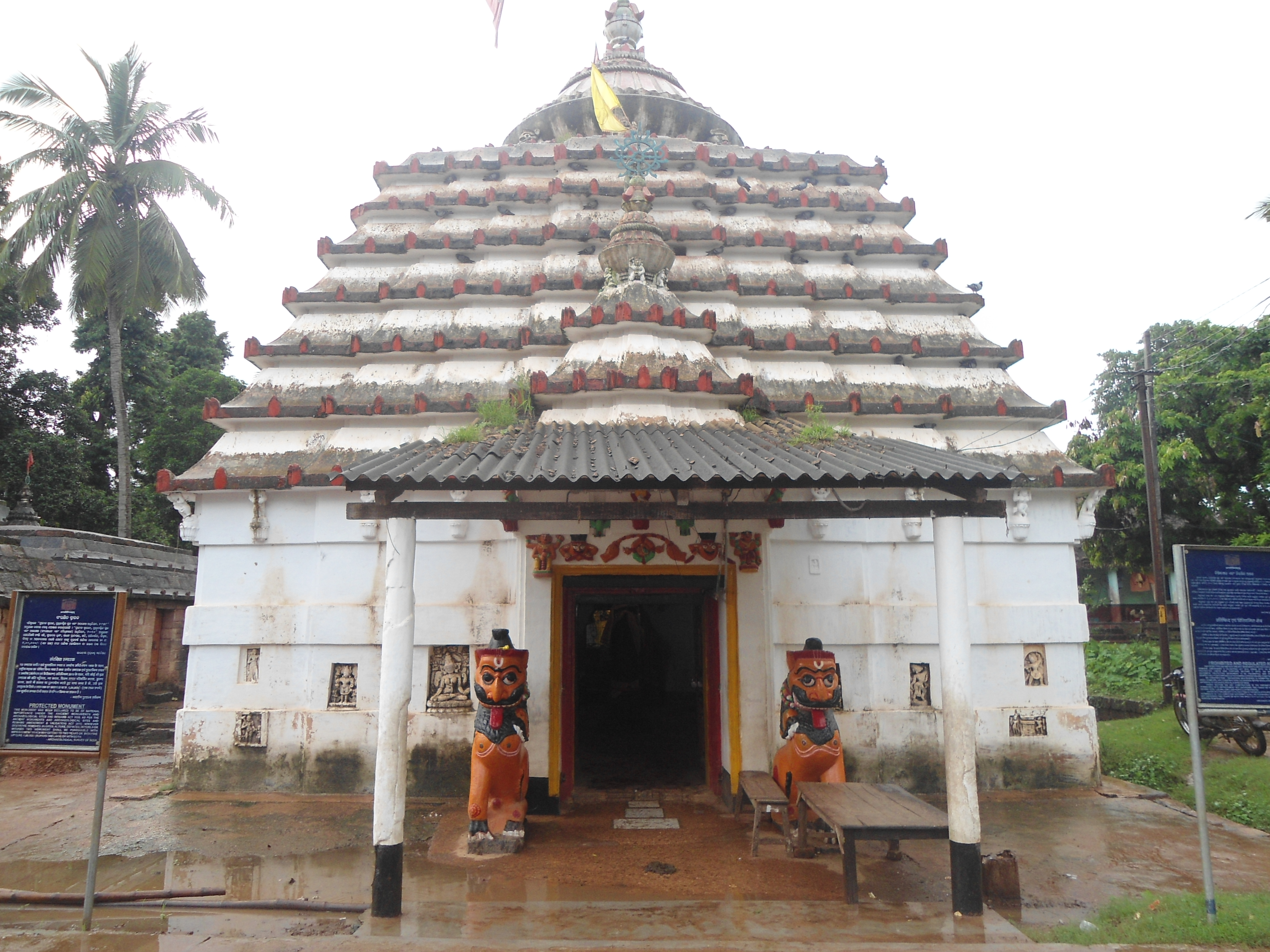 Varahanatha Temple Front View